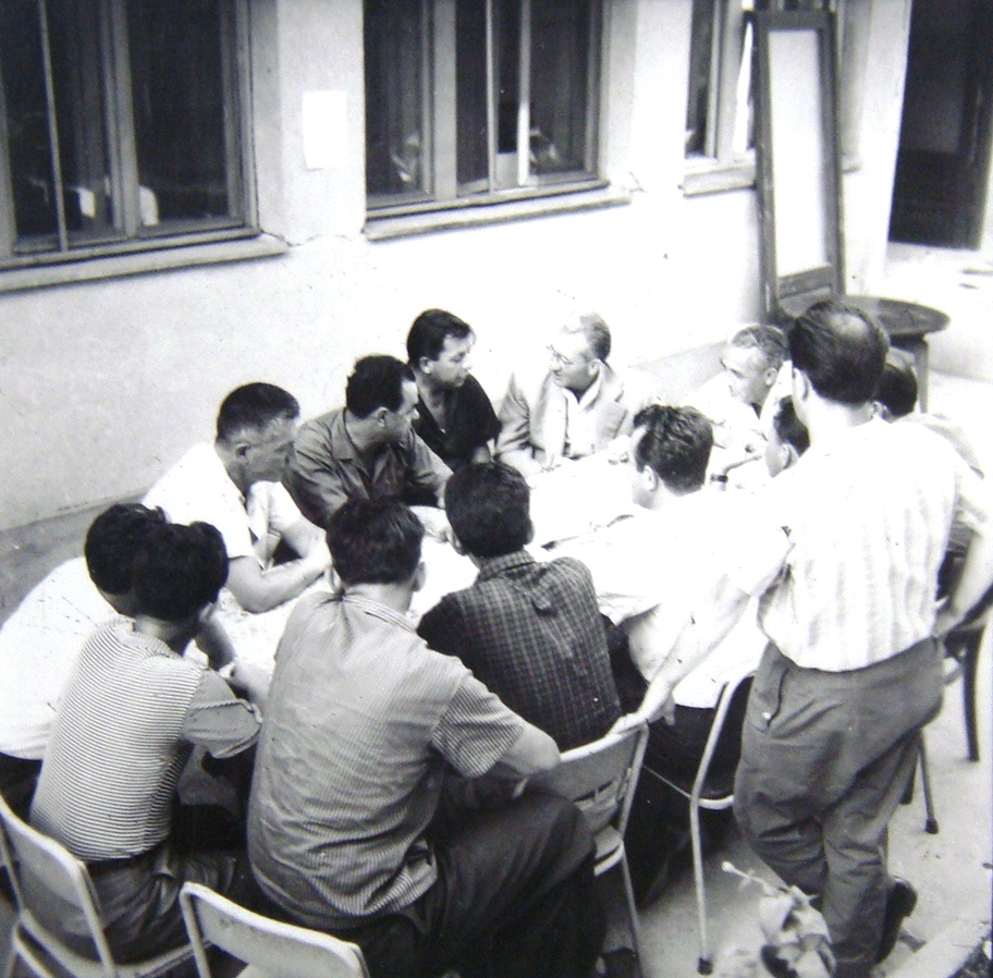 1963 Skopje earthquake: President of the Central Committee of the CPM, Krste Crvenkovski, on meeting with editors from newspaper Nova Makedonija This media file is produced by Wikipedian in Residence in Category:Wikipedian in Residence at DARM in 2016.